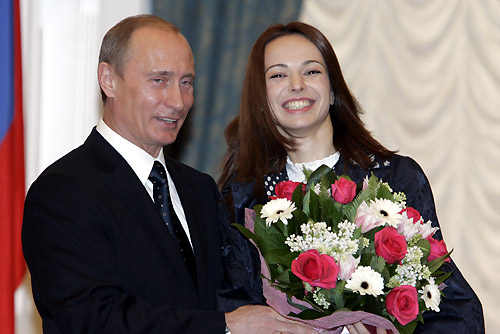 THE KREMLIN, MOSCOW. Awarding state decorations. Diana Vishneva, soloist with the State Academic Maryinsky Theatre, is awarded the honorary title of People\'s Artist of Russia.